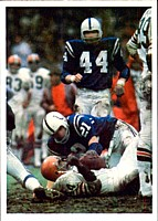 A football card from the 1986 Jeno's Pizza NFL football card stickers set of Baltimore Colts safety Rick Volk tackling Cleveland Browns running back Leroy Kelly during the 1971 AFC Divisional Playoffs Game. The card is numbered #31 in the set The back of the card reads: THE COLTS JUMP ON THE BROWNS Colts safety Rick Volk (21) puts Cleveland running back Leroy Kelly on his back, as the Colts throttle the Browns' offense to win their 1971 AFC Playoff Game 20-3. Ranked number one in the NFL, the Colts' defense held Cleveland to just 69 yards rushing and 165 in all. Volk also set up a Colts touchdown with a 37-yard interception return.